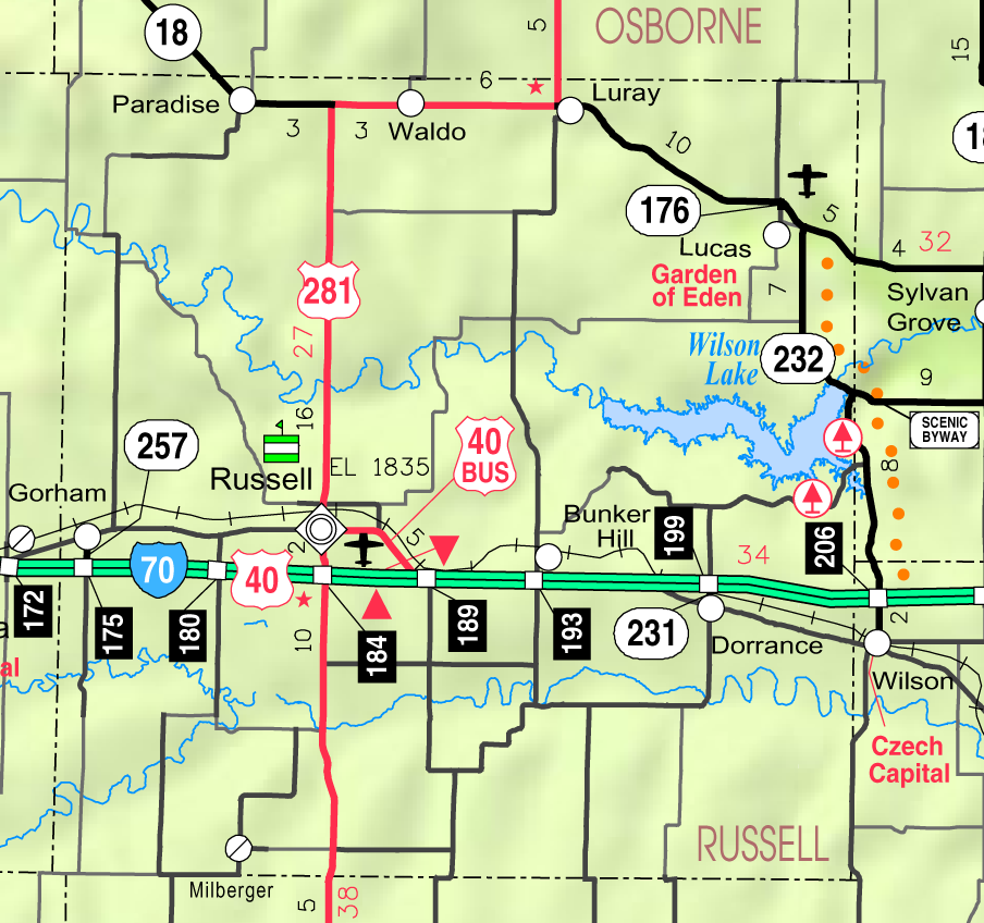 This map of Russell County, Kansas, USA, is copied at a resolution of 300 pixels/inch from the original PDF file.